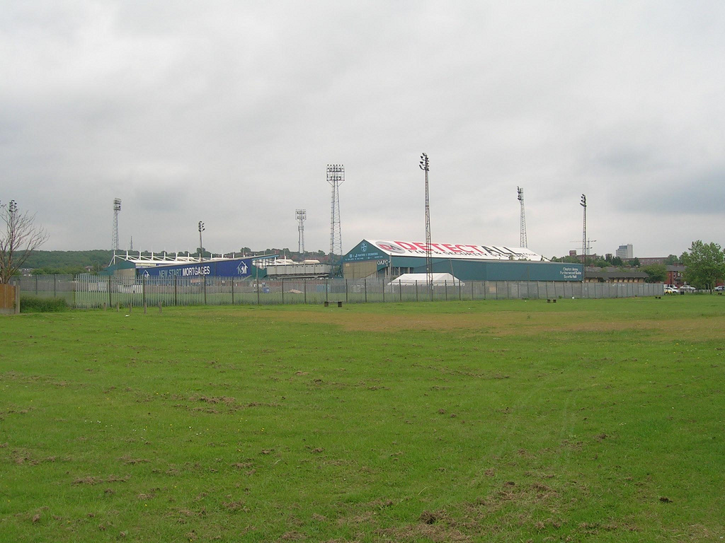 Boundary Park, Oldham Athletic's football stadium, in Oldham, Greater Manchester, England.